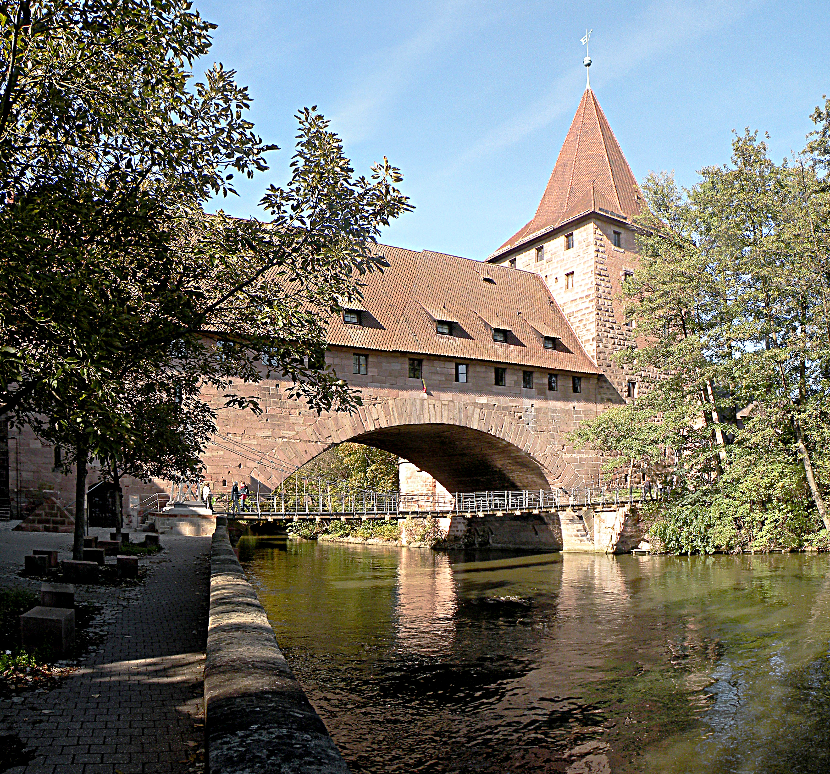 Iron_Suspension_bridge_.Nuremberg.